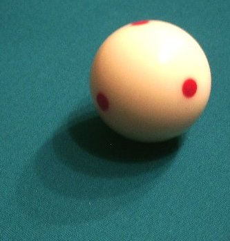 A "measel ball", the relatively new, spotted cue ball used in televised tournaments in pool, and now also in snooker and carom billiards as well. The spots help demonstrate the ball-spin effects of "english". Many actual players, not just audience members, favor these balls for the same reason, and they are especially good for practice, to ensure that one has a straight stroke. (This is the more cropped close-up version; for the expansive-view version, see below.)